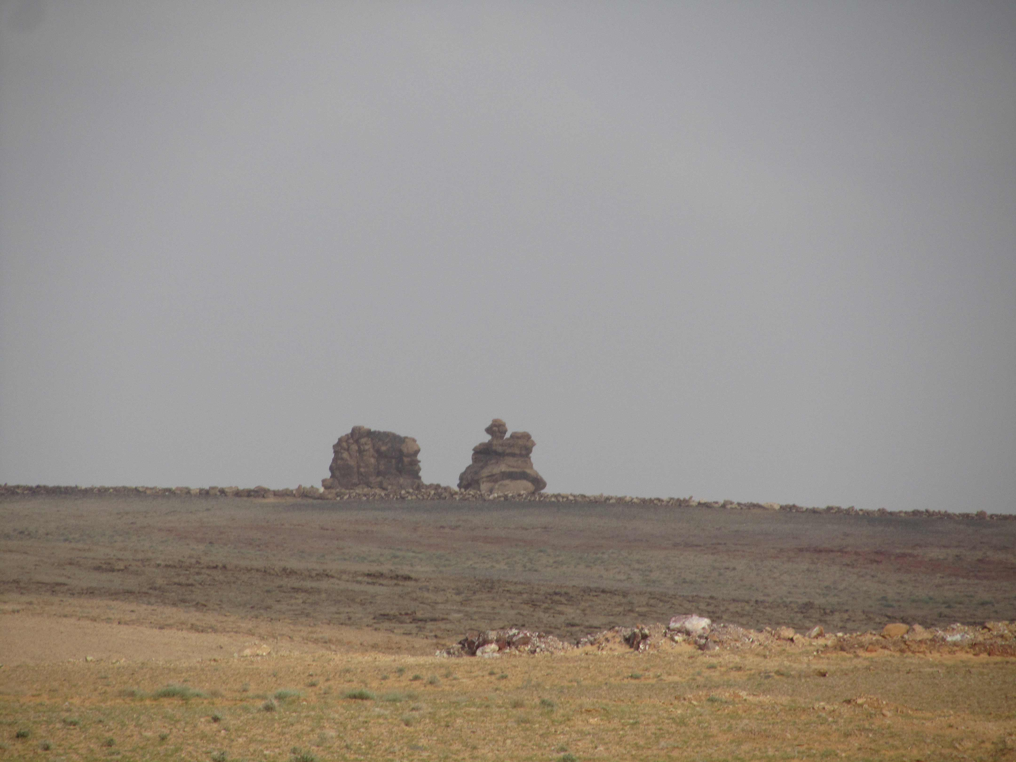 Two strange shaped rocks called "Alkhass'yayn". They are about 3 km South East Jildiyyah mountain in the eastern area of Ha'il province, Saudi Arabia. They contain Thamudic drawings & inscriptions.